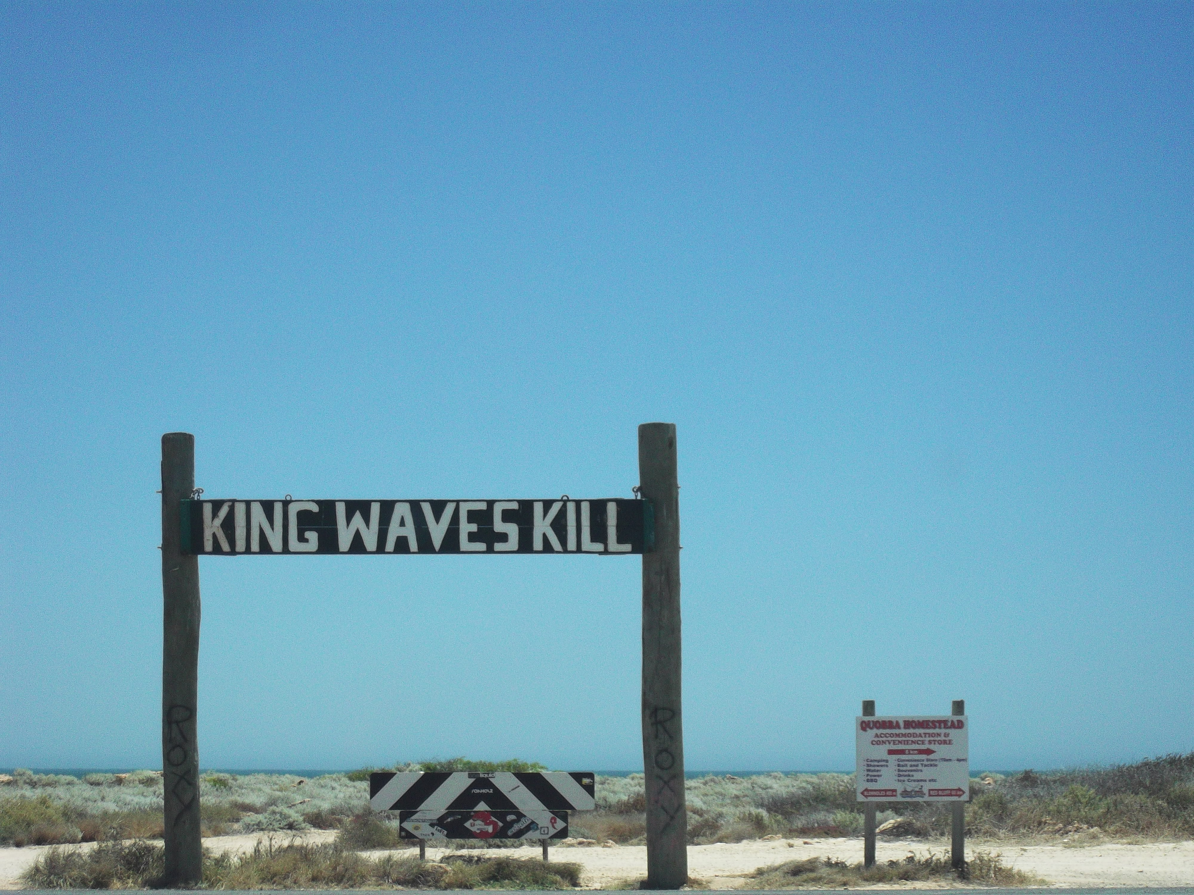 Sign at Quobba Station warning of large waves